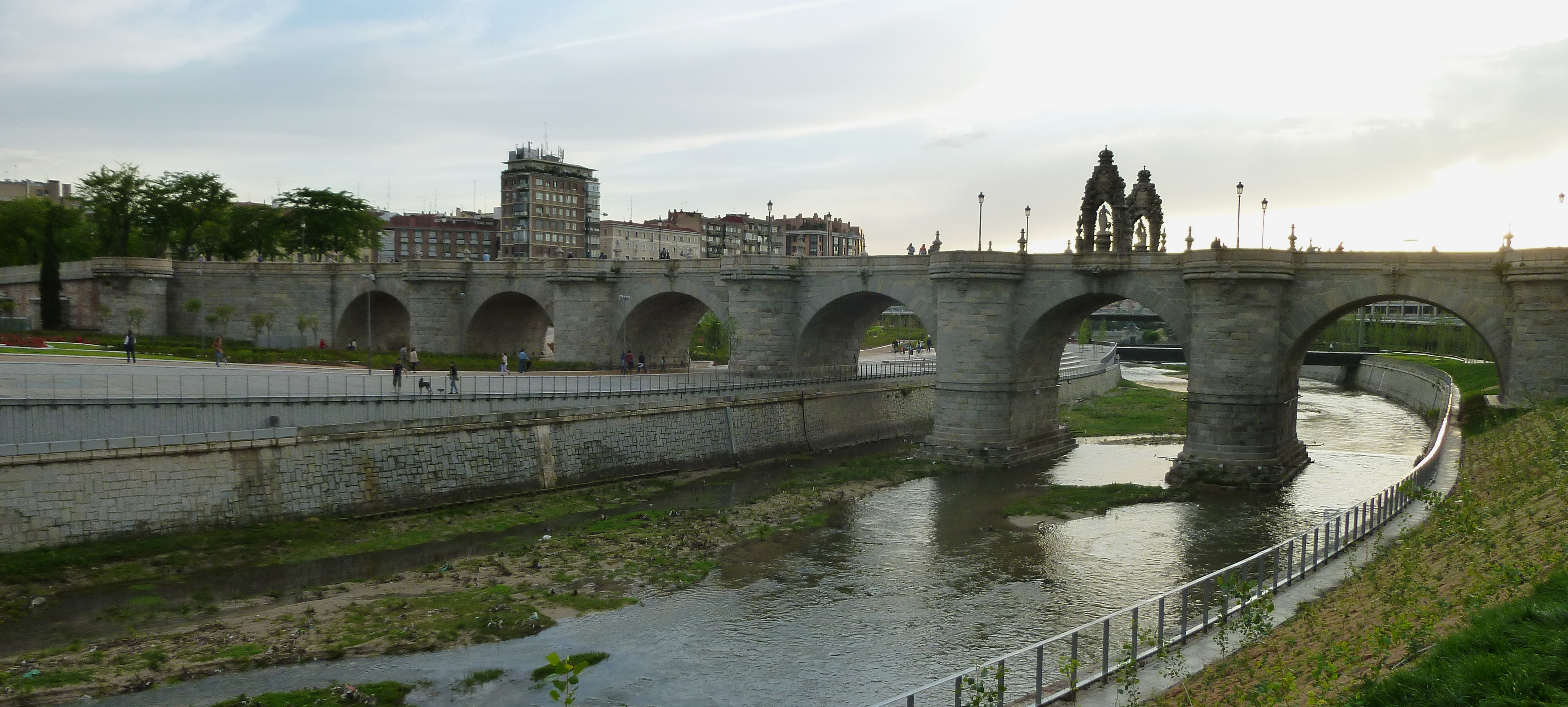 South-eastern side of Toledo Bridge in Madrid (Spain).